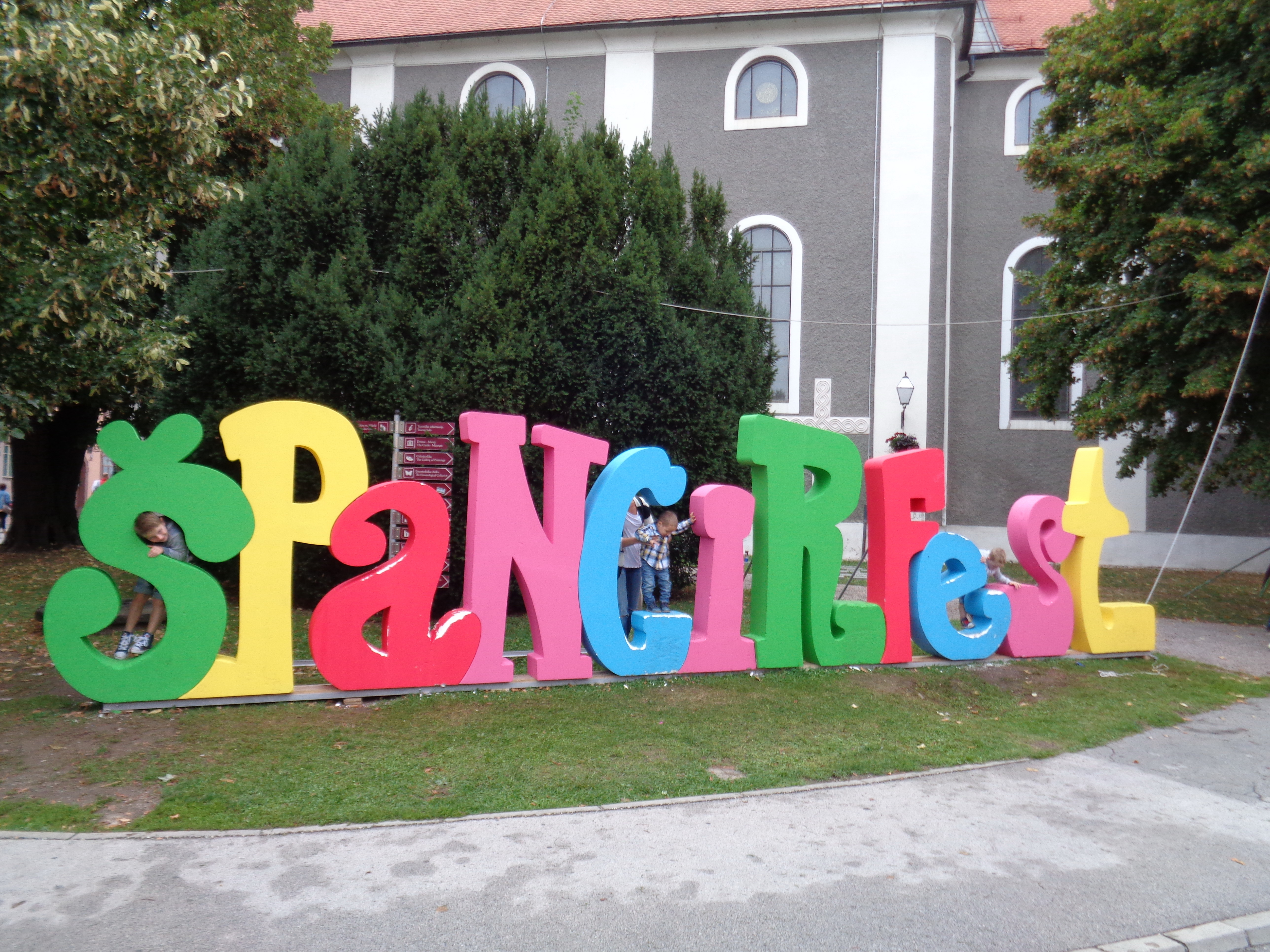 Inscription of "Špancirfest" street festival in giant letters, Varaždin, Croatia (2016)